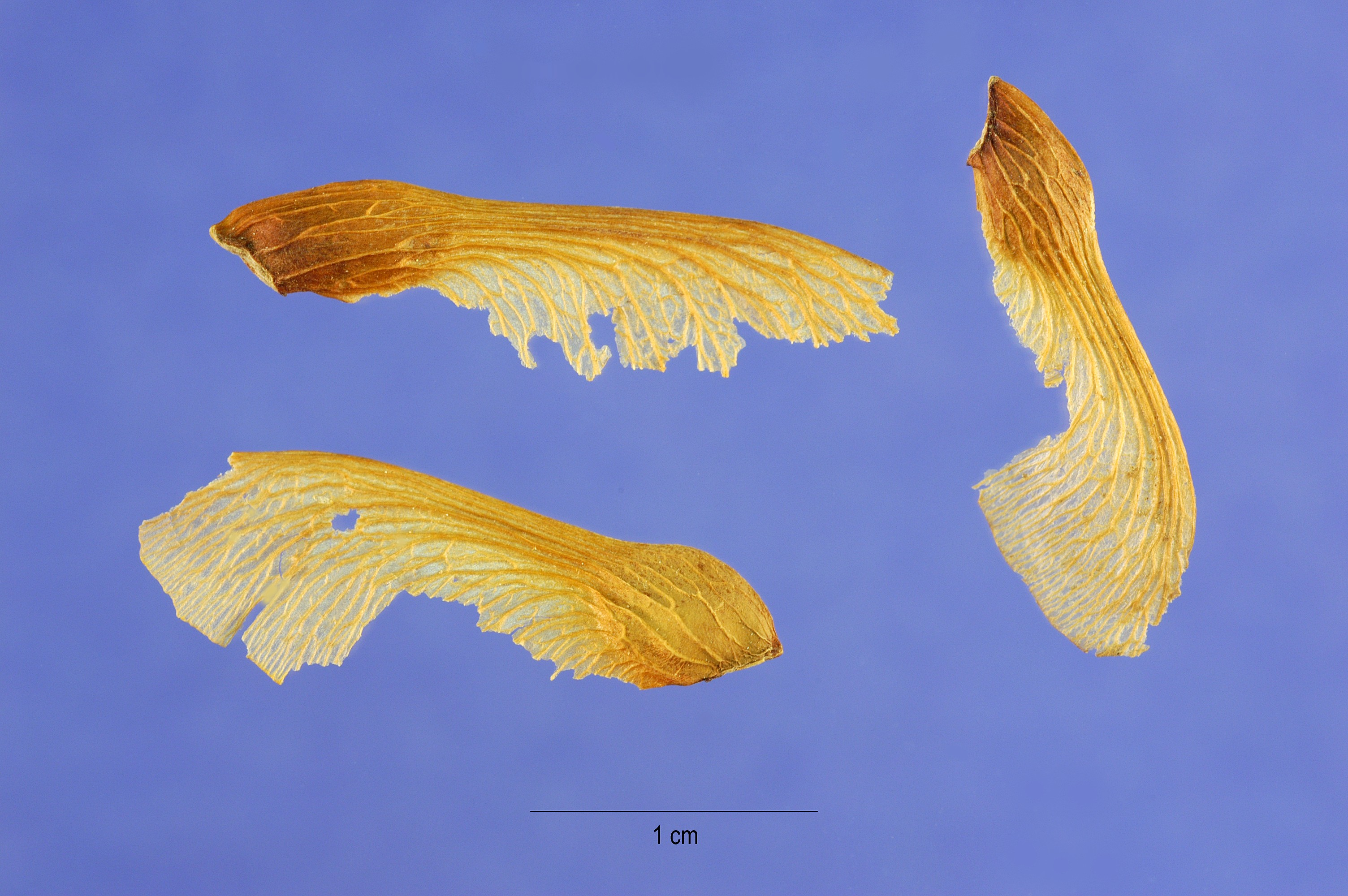 Red Maple. Seeds.